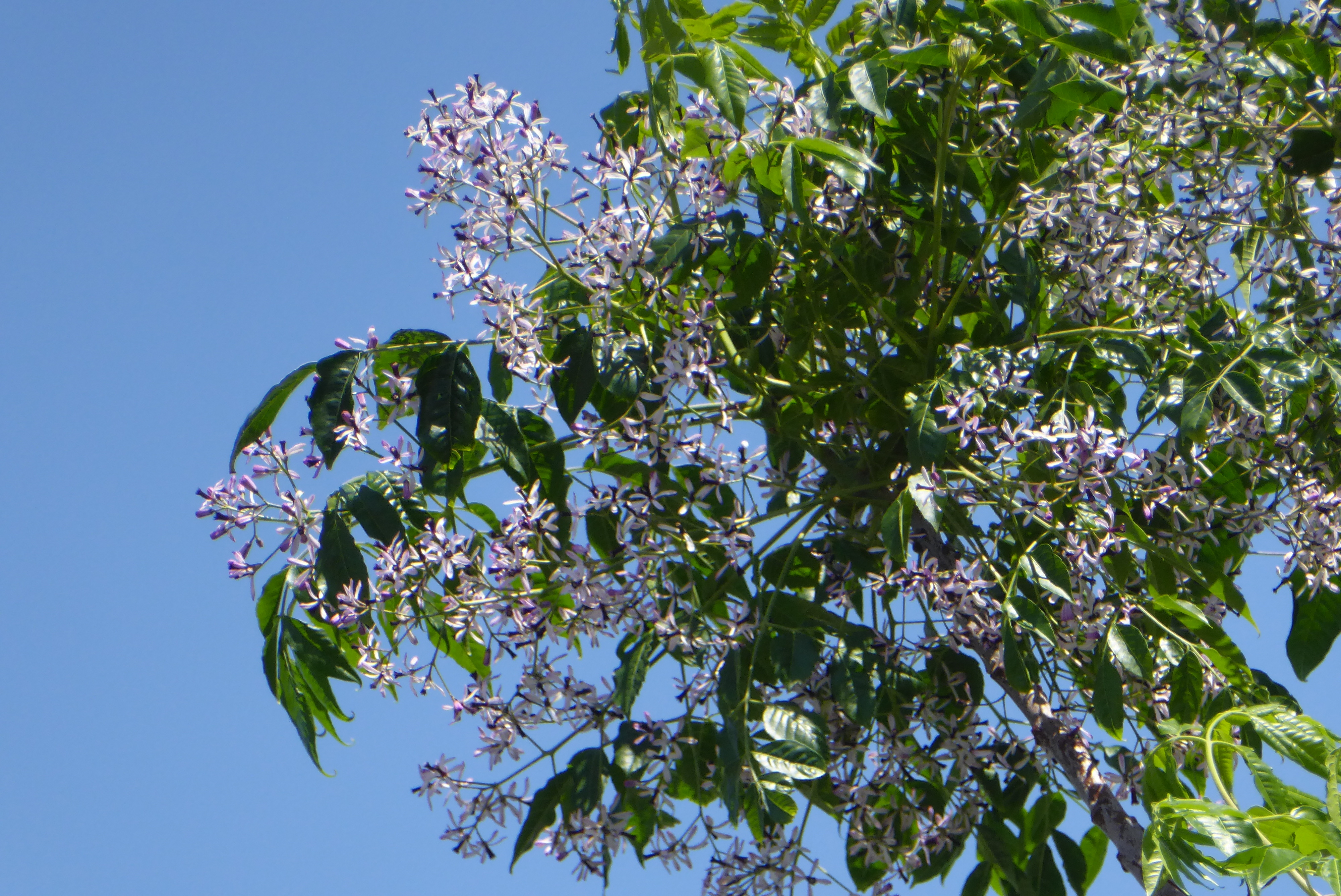 Ramat Gan Israel